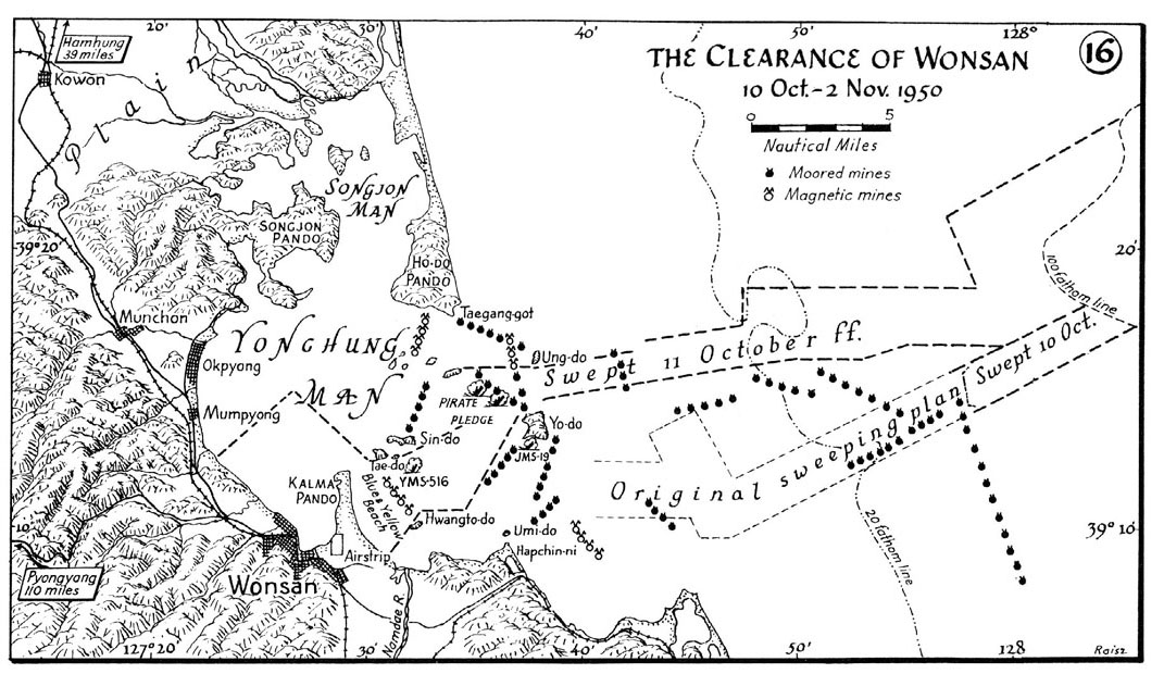 The Clearance of Wonsan Harbor map, a United Nations naval operation to clear sea mine fields off Wonsan, North Korea in 1950 during the korean War.